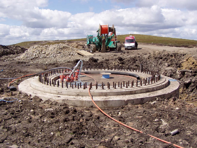 Concrete base for turbine 23 This shows turbine 23 of the Scout Moor windfarm during construction. The photograph shows the concrete base on to which the metal turbine tower will be bolted. The machine in the background is for laying cables between the turbines and to the electricity sub-station in SD8216.